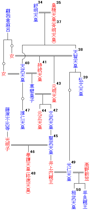 Family tree of the emperor of Japan, from 38th to 50th 天皇家系図 38代～50代